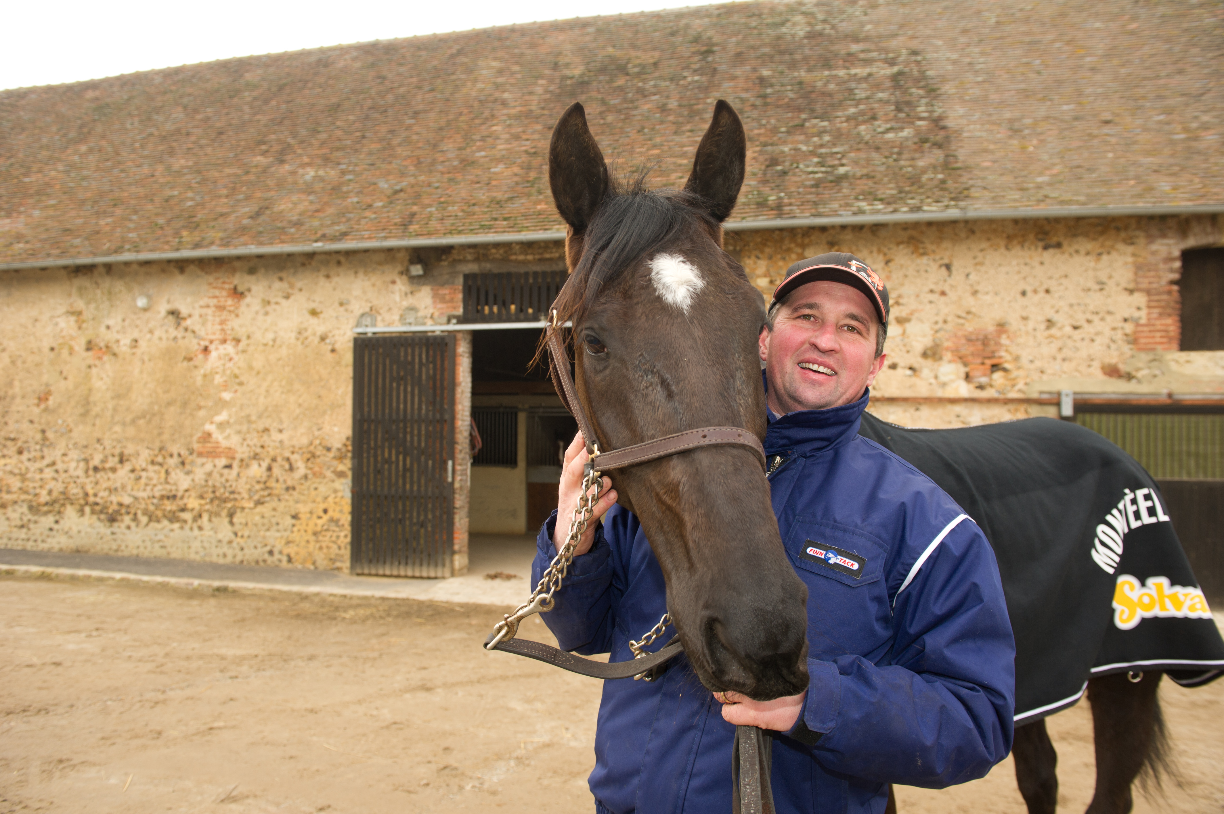 Rapide Lebel and trainer Sebastien Guarato, 2011-02-18.